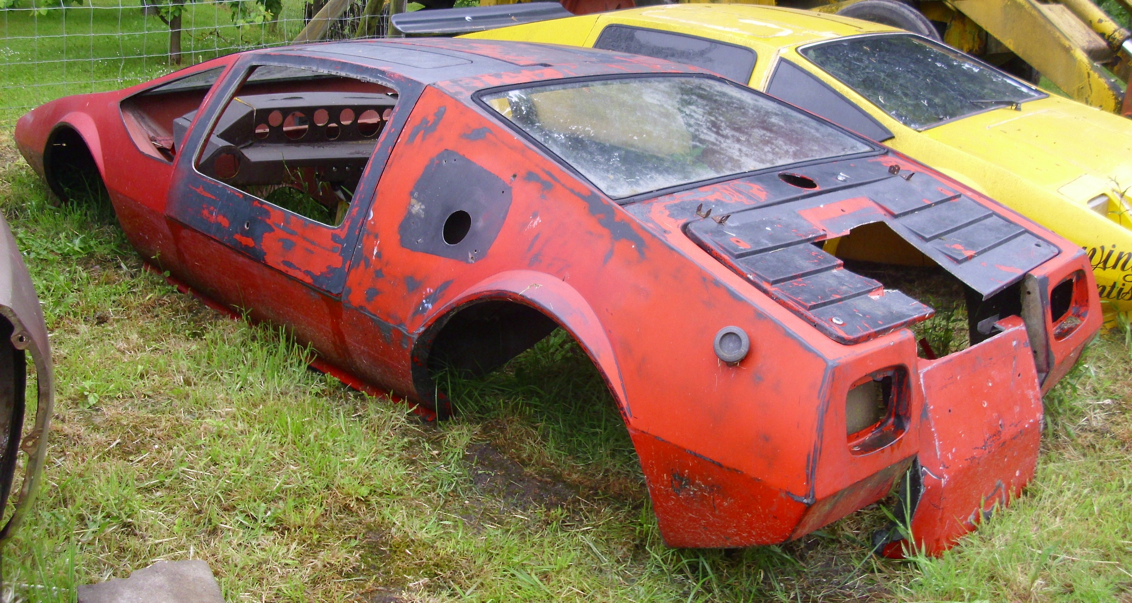 Embeesea Charger